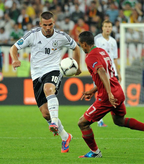 Match between Germany and Portugal during UEFA Euro 2012 that took place in Lviv. Final score was 1:0 (Gómez).